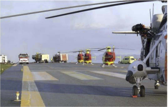 Some of the rescue material used after Atlantic Airways Flight 670.